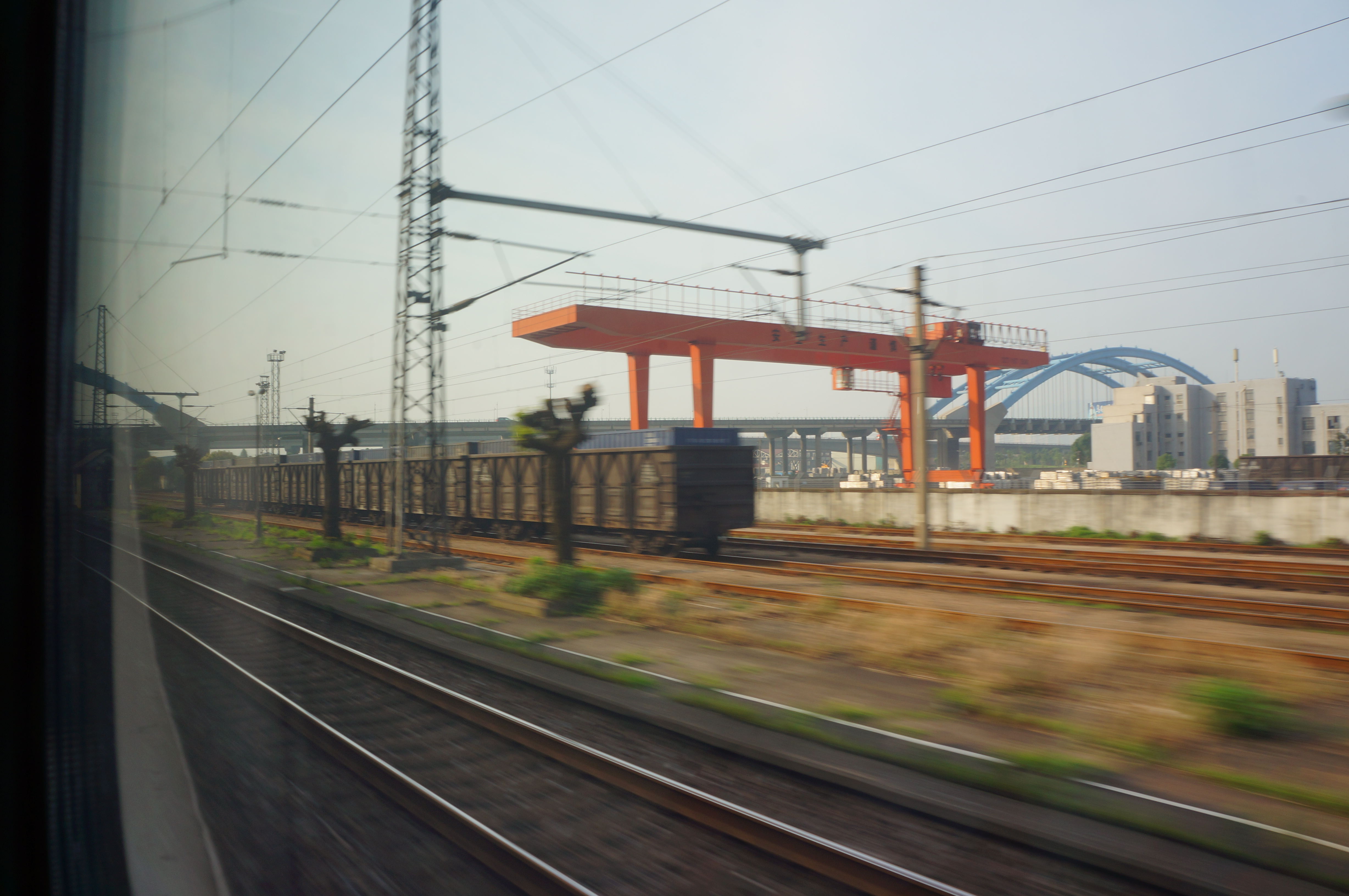 201606 Z9 passes Wuxibei Station2